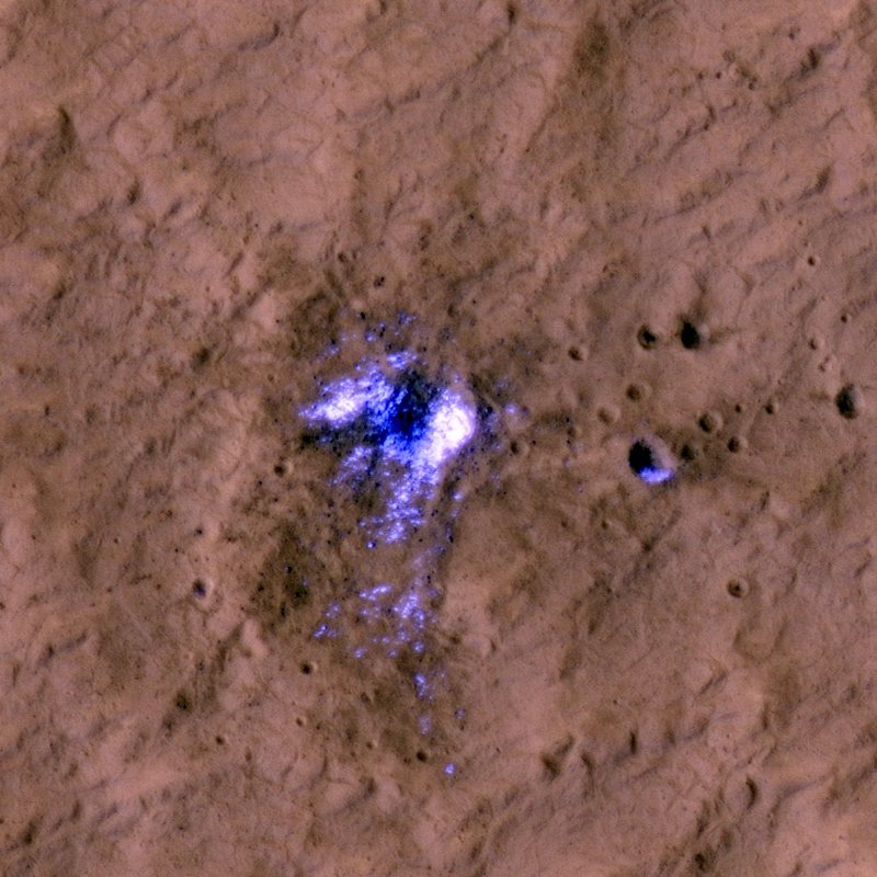 A newly formed impact crater, observed by HiRISE on Mars Reconnaissance Orbiter. The impact that formed the crater exposed the water ice beneath the surface. Some of the ice can be seen scattered at the adjascent area in the subimages. The blast zone (excavated dark material) is almost 800 meters (half a mile) across. The crater itself is just over 20 meters (66 feet) across